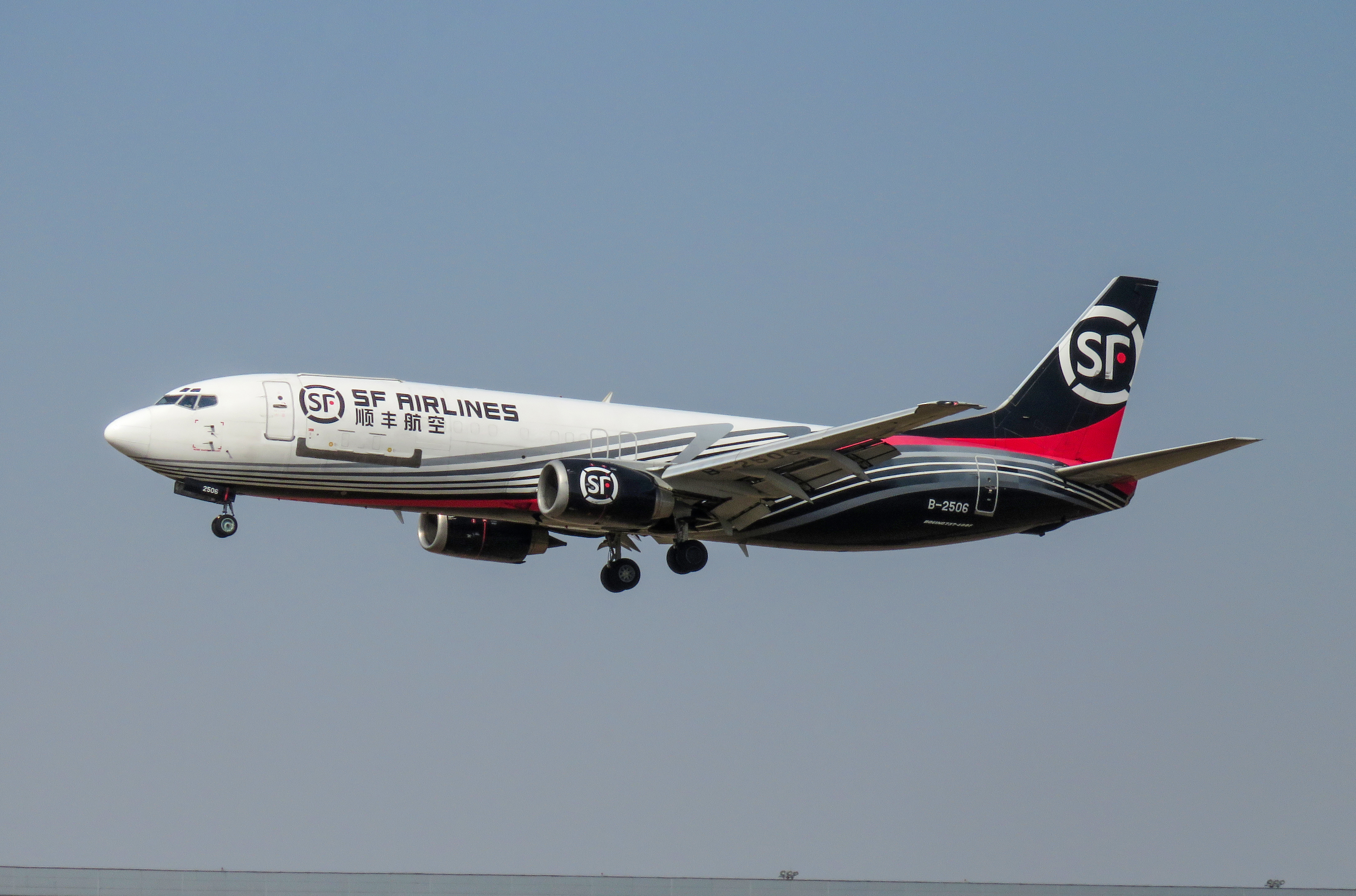 Another Shunfeng flight... missed O36914 (767) due to the change of wind.